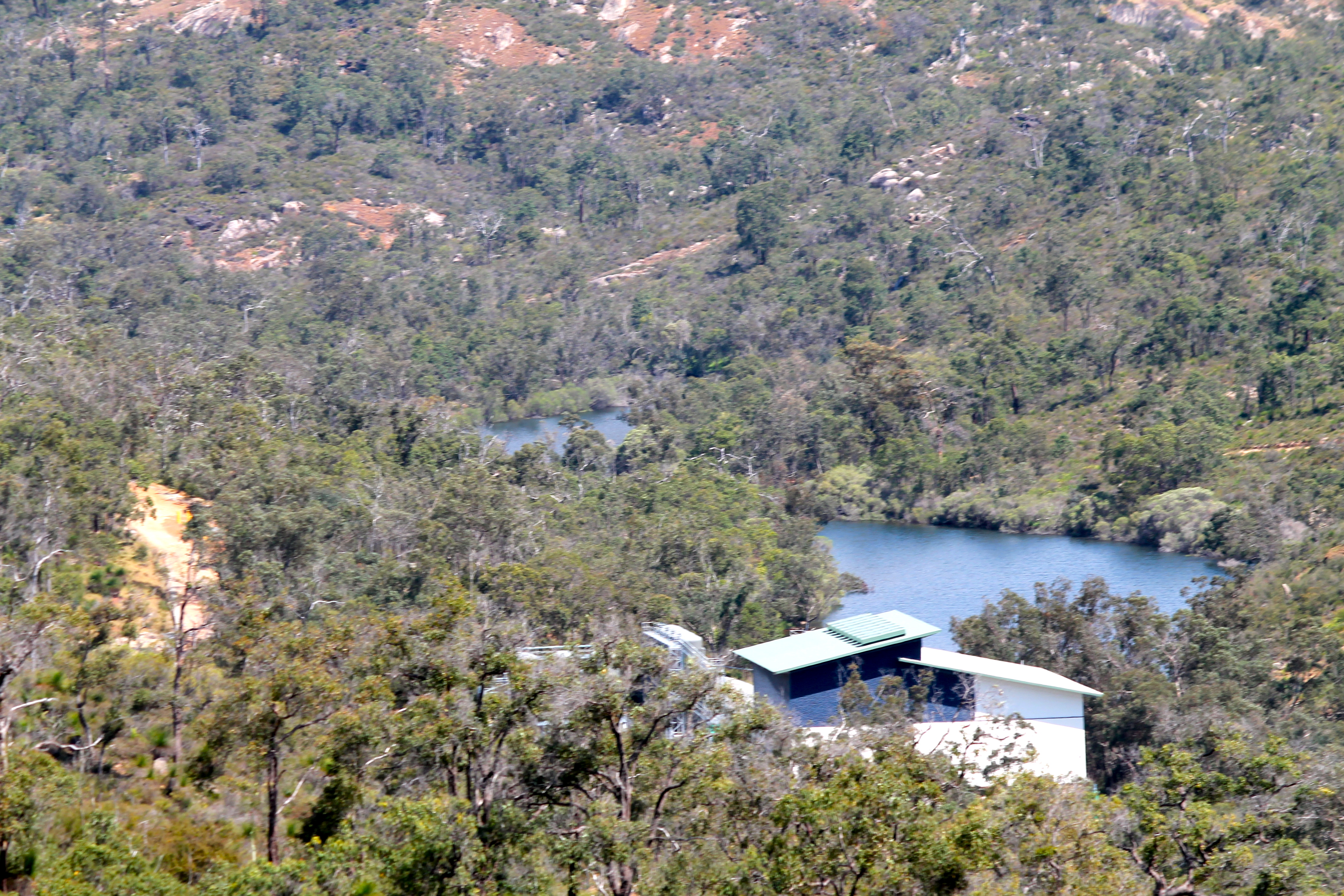 Helena River Valley - at the intersection between the Kalamunda and Beelu National Parks, Darling Range, Western Australia